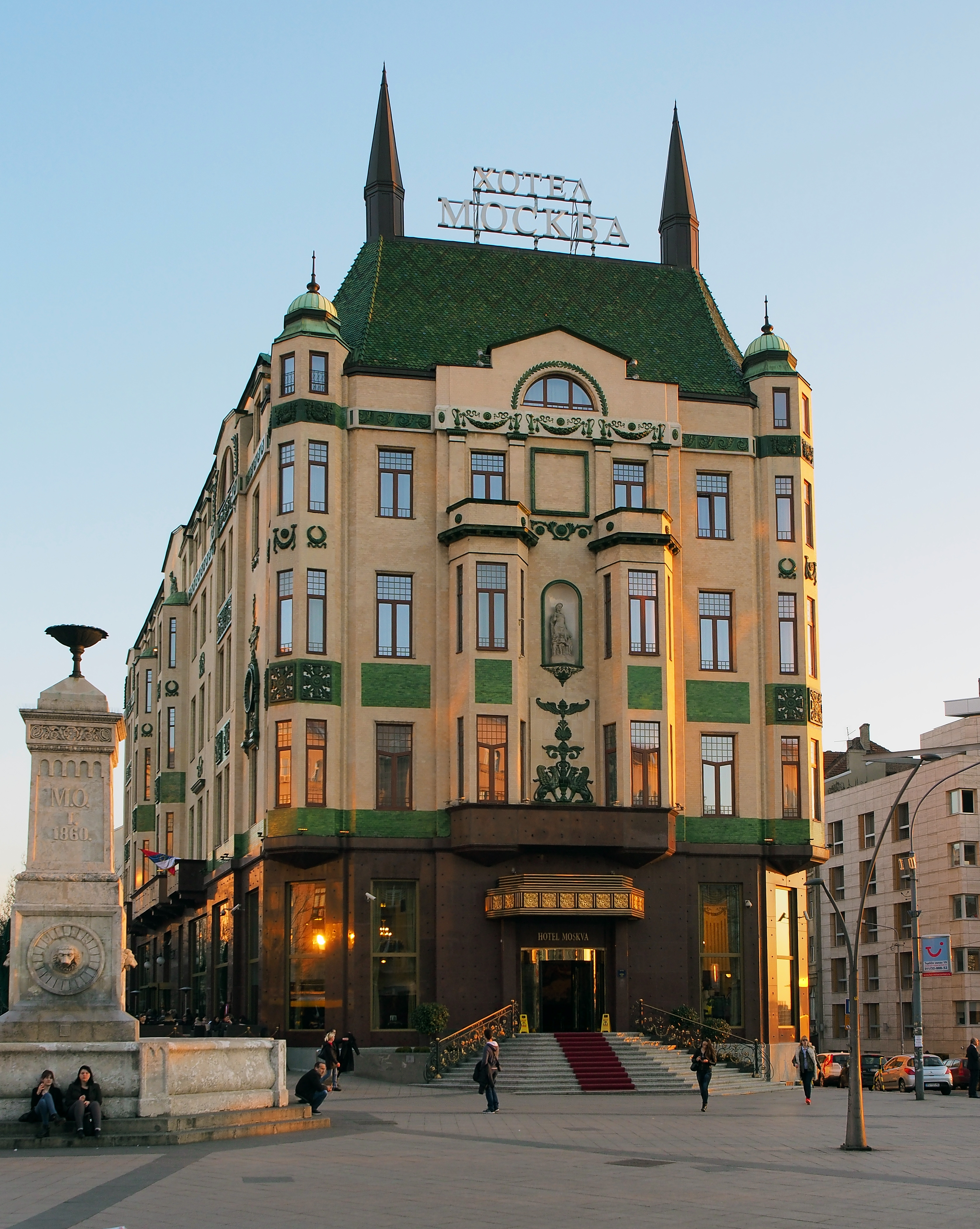 Hotel Moskva (Belgrade) This photograph was taken with a Olympus E-P5.